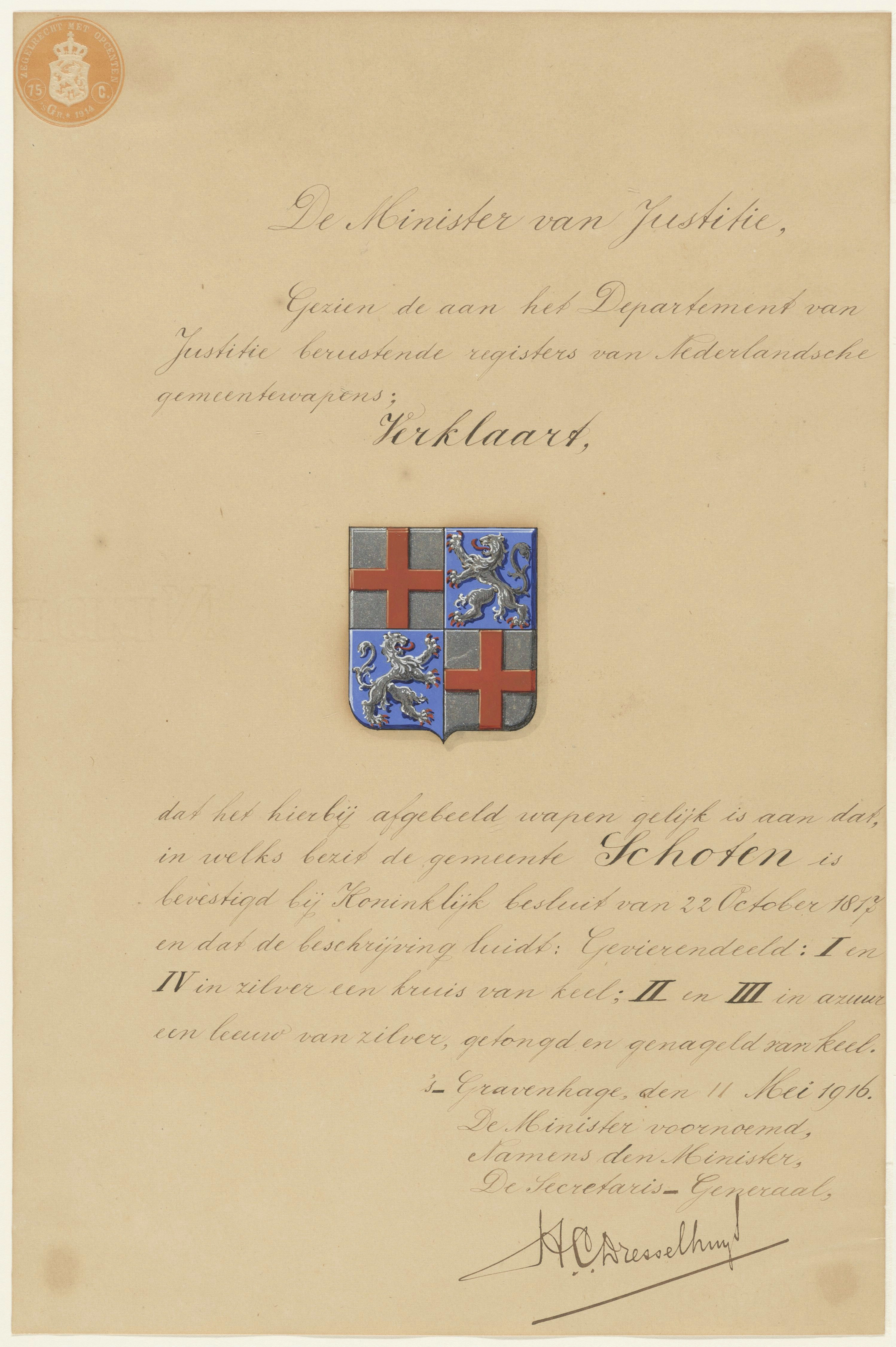 Copy of the original certificat from 22 oktober 1817